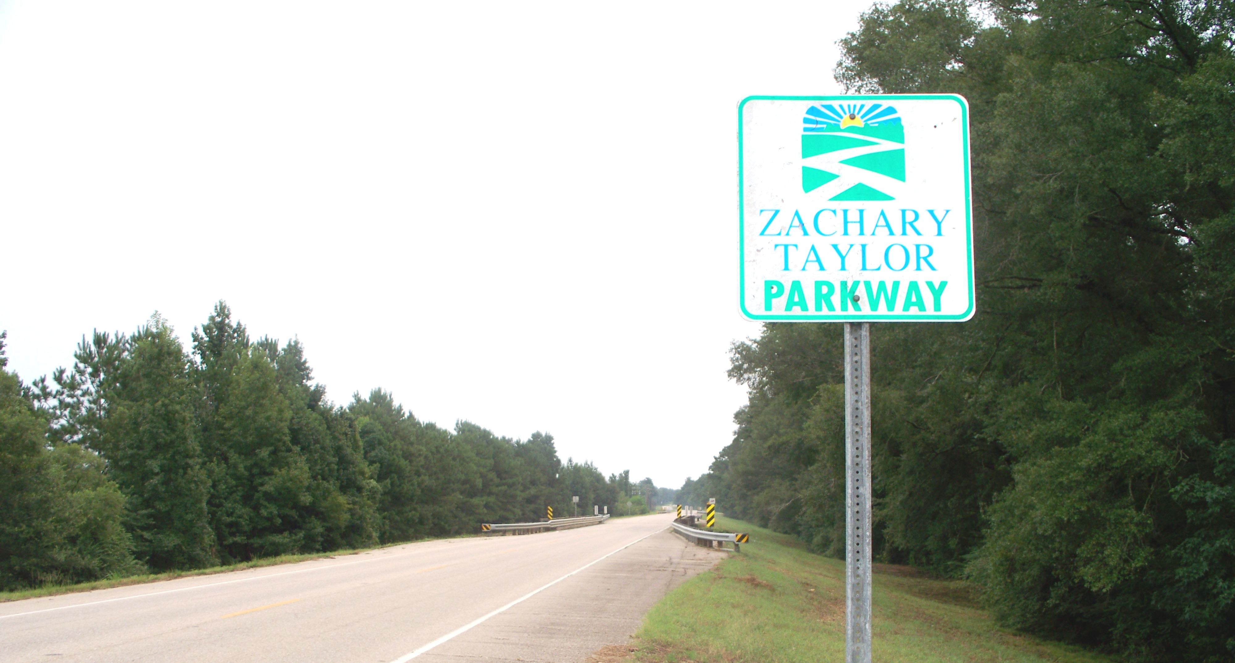 Zachary Taylor Parkway (LA 10) between Clinton and Greensburg, Louisiana, looking east